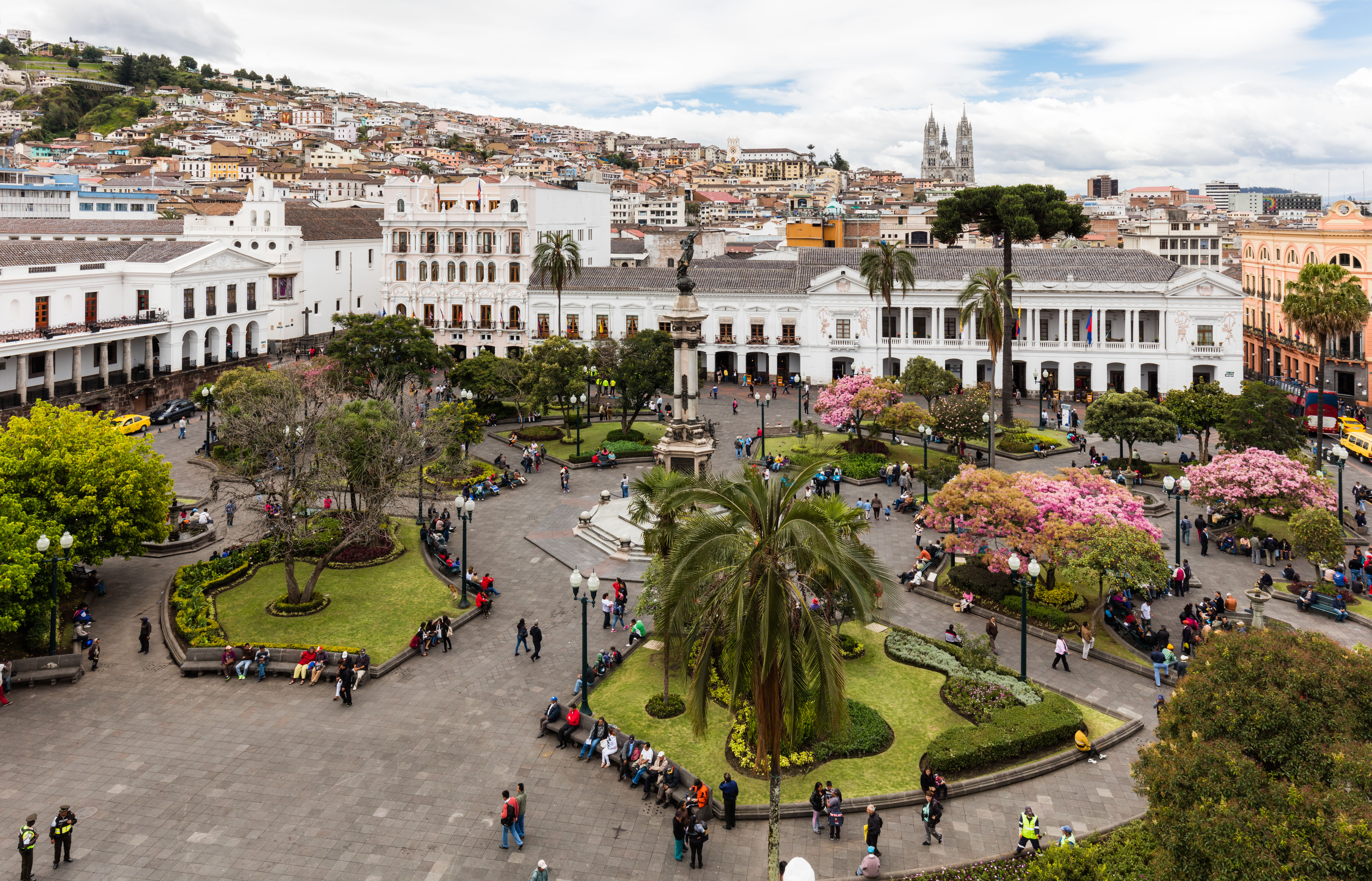 Plaza Grande, Quito, Ecuador